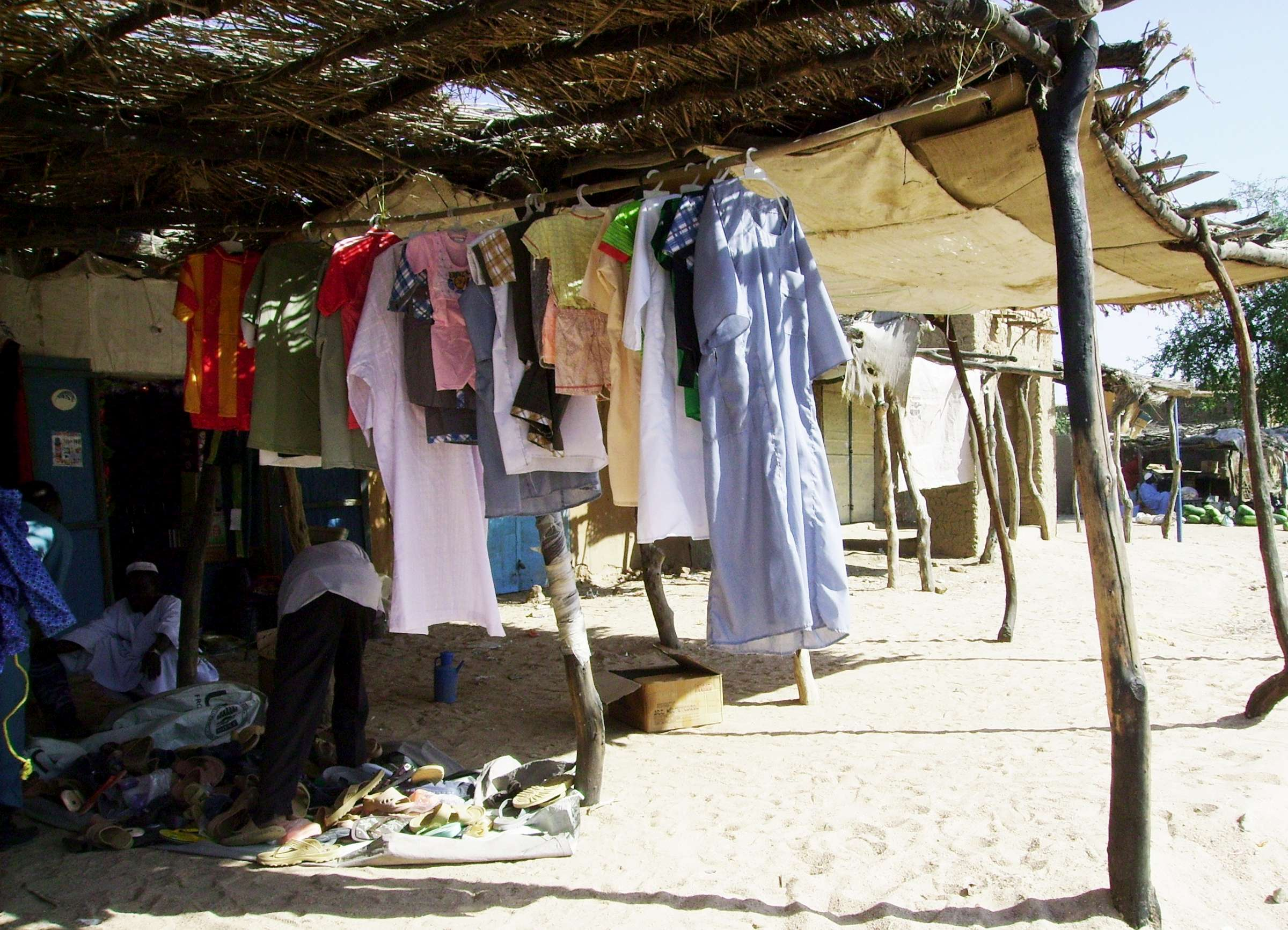 Darfur. Clothing stall